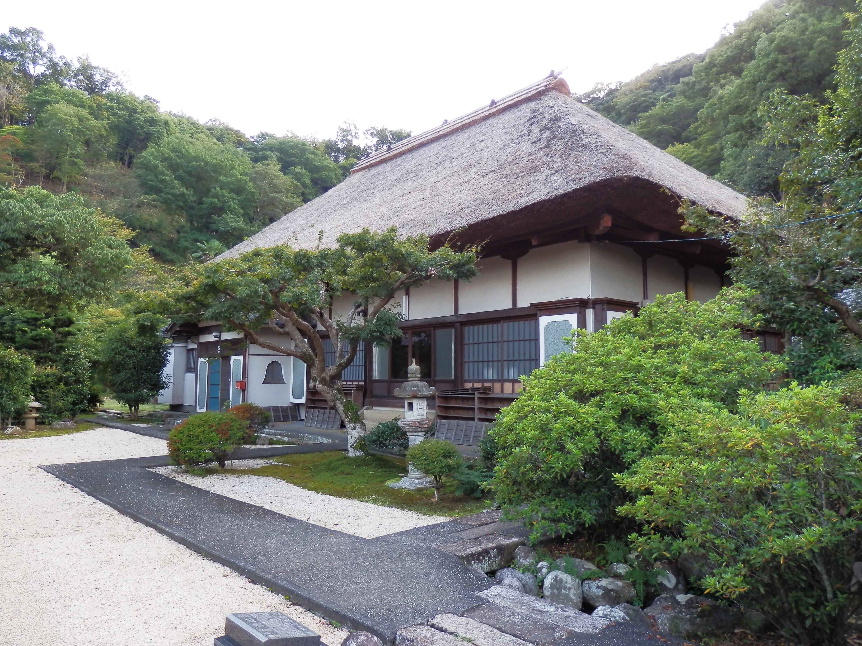 Ganjōju-in Temple, in Izunokuni, Shizuoka Prefecture, Japan